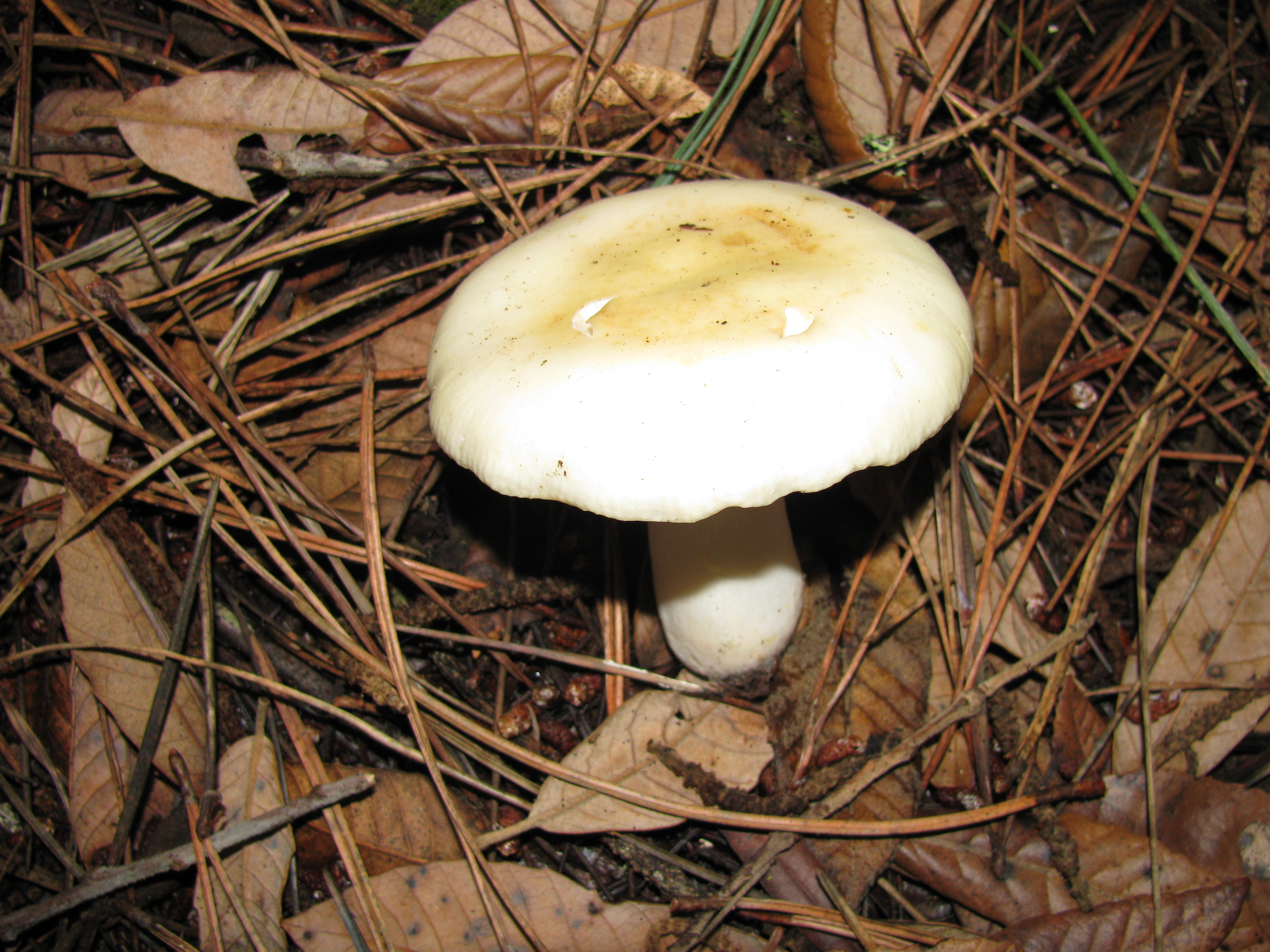 A fruit body of the fungus Russula crassotunicata Singer. Specimen photographed in Mendocino, California, USA.